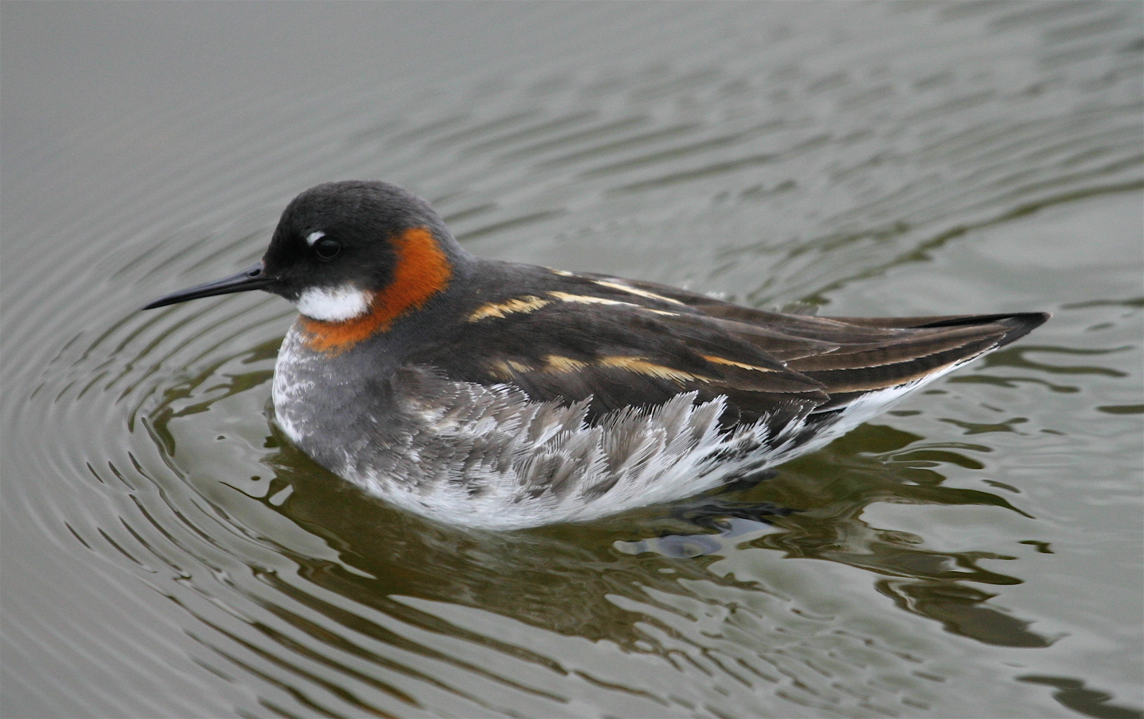 Red-necked Pahalarope in northern Iceland, June 2006